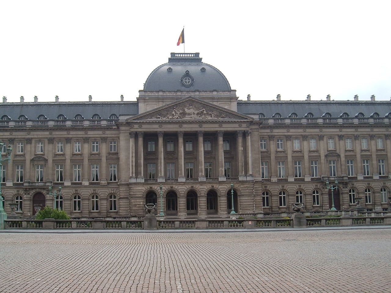 Brussels Palace in Brussels, Belgium